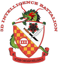 Squadron insignia for 3rd Intelligence Battalion